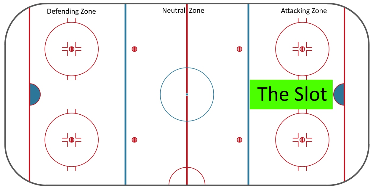 Diagram of "The Slot" in ice hockey.